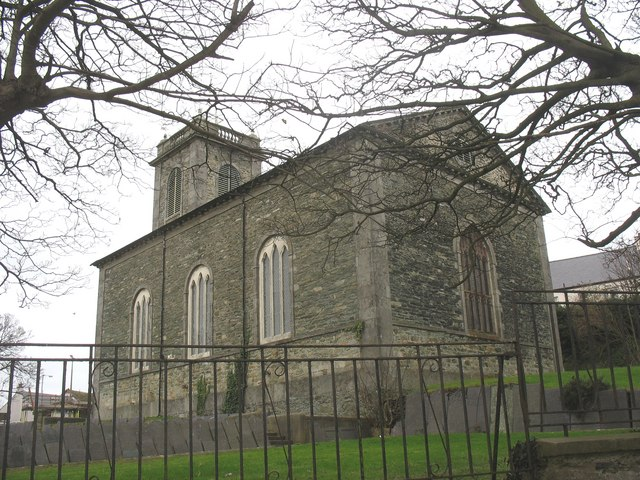 Eglwys St Eleth Church